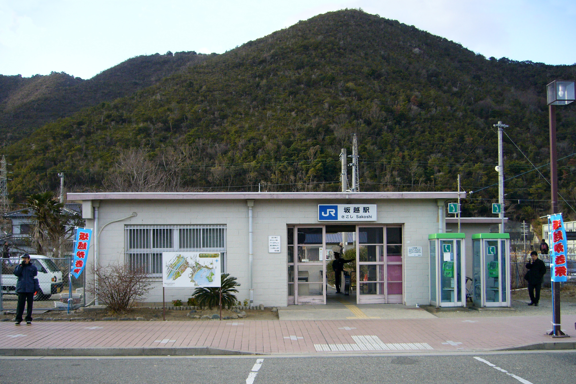 Sakoshi Station, Akō, Hyōgo, Hyogo prefecture, Japan